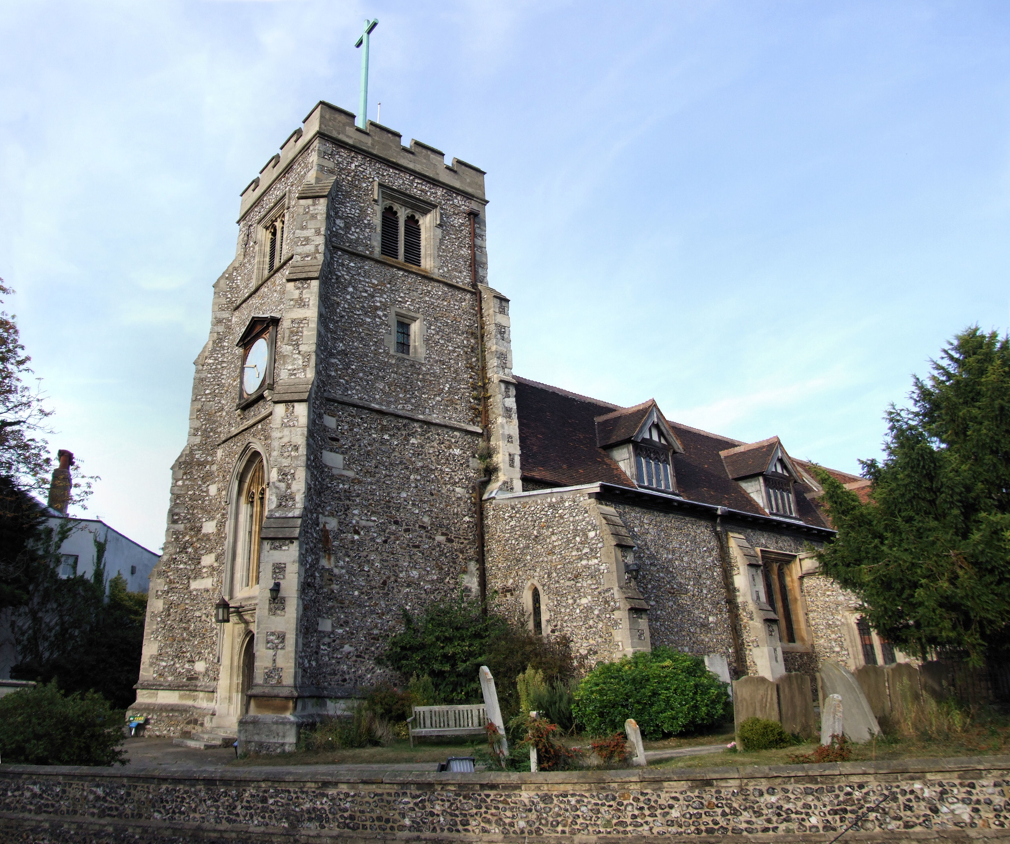 The photo was taken in September 2009, but I've adjusted the date so that it relates to the period that we lived in Pinner.